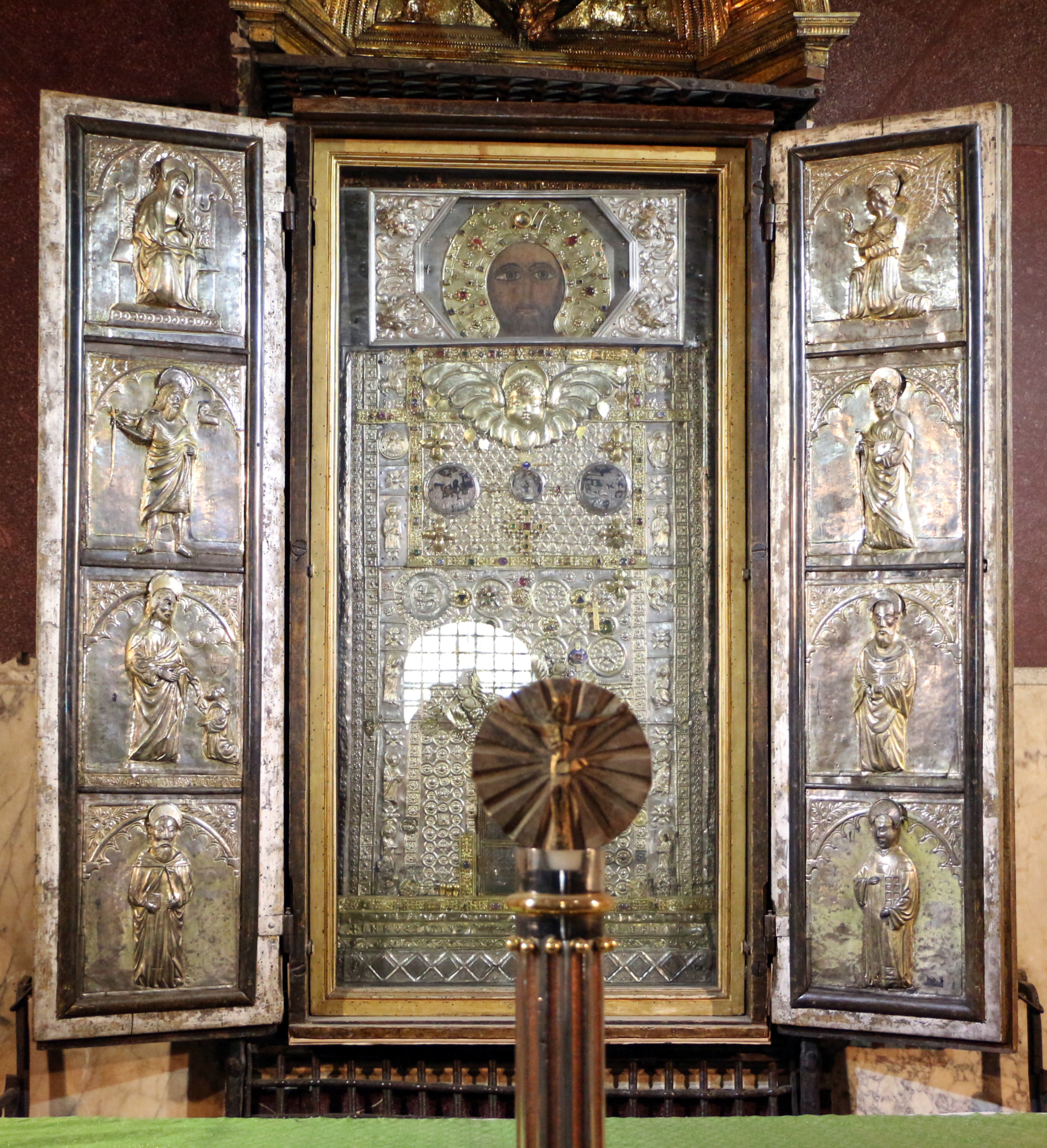 Sancta Sanctorum (Rome)